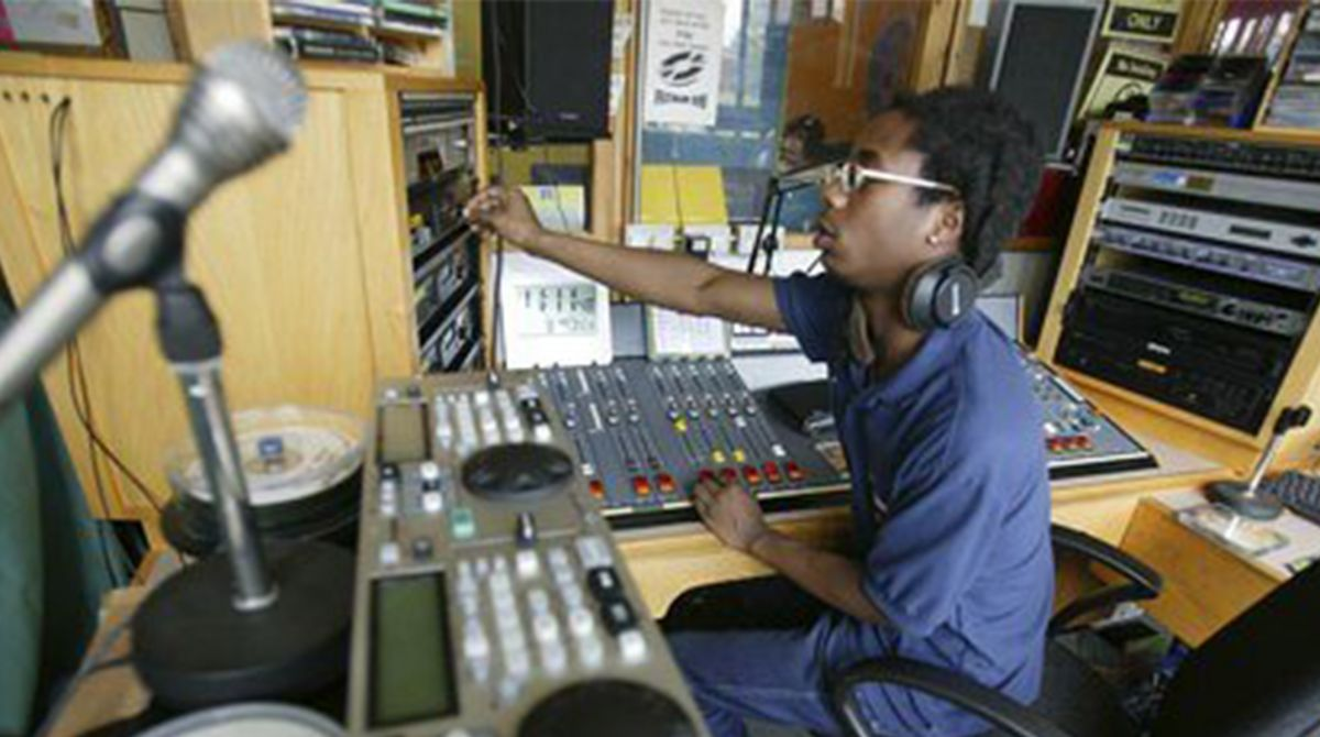 Radio Feltham's studio.